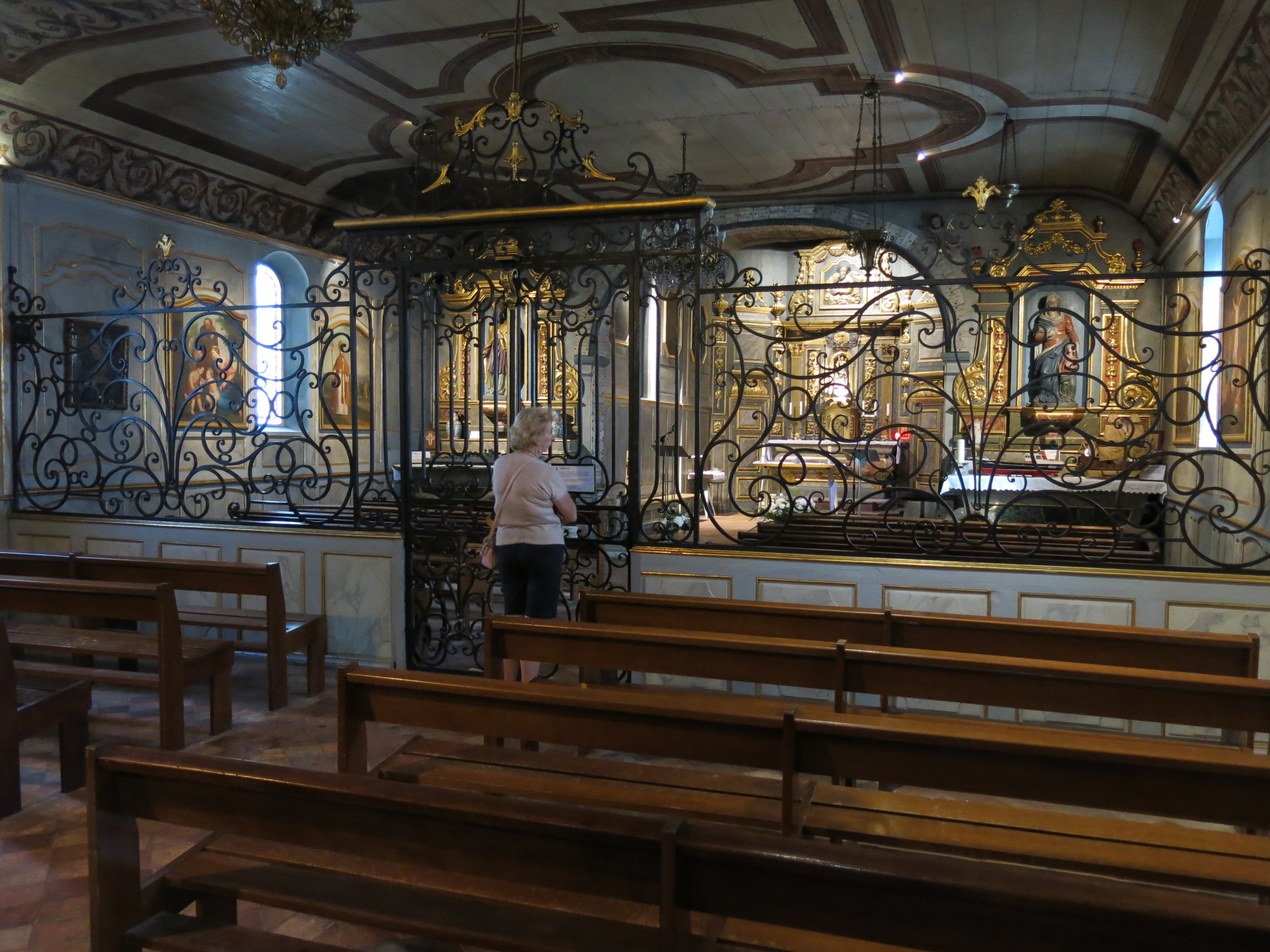 Interior of the Chapelle des marins (=Chapel of the sailors) in Arcachon (Gironde, France).